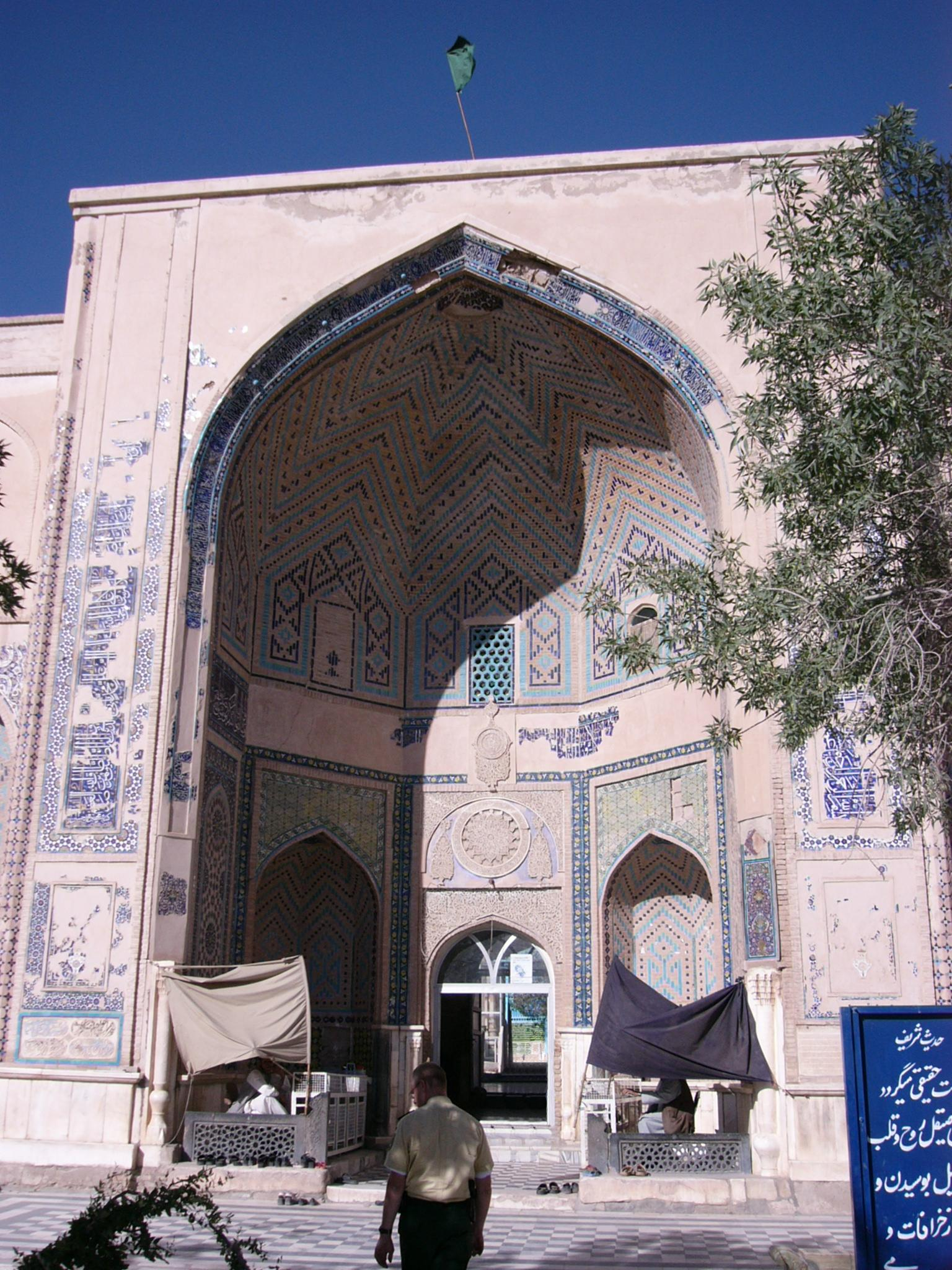 Tomb of Abdullah Ansari in Herat, Afghanistan